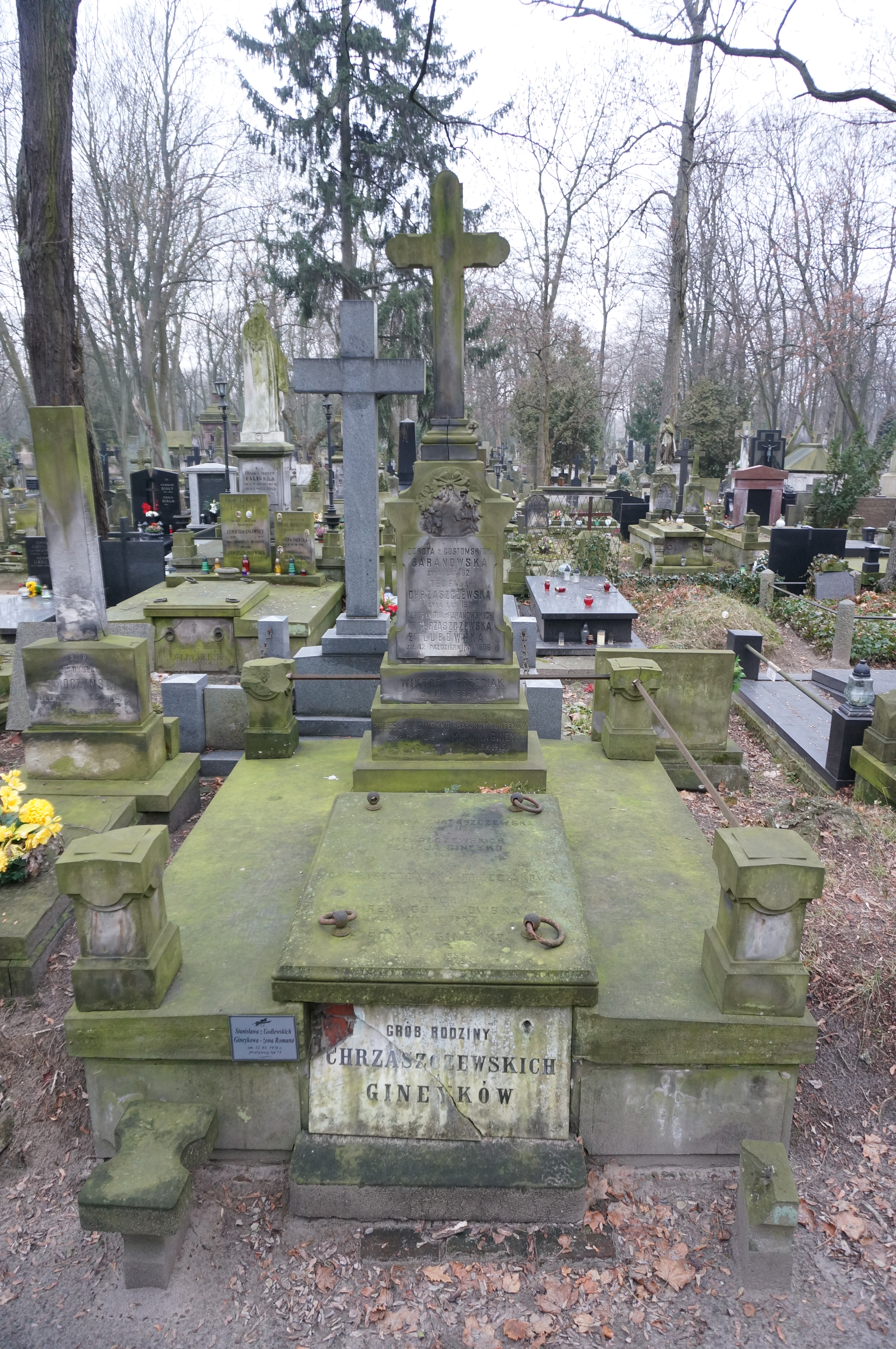 The grave of Roman Gineyko at the Powązki Cemetery (section Ł, row 3, grave 17, 18)